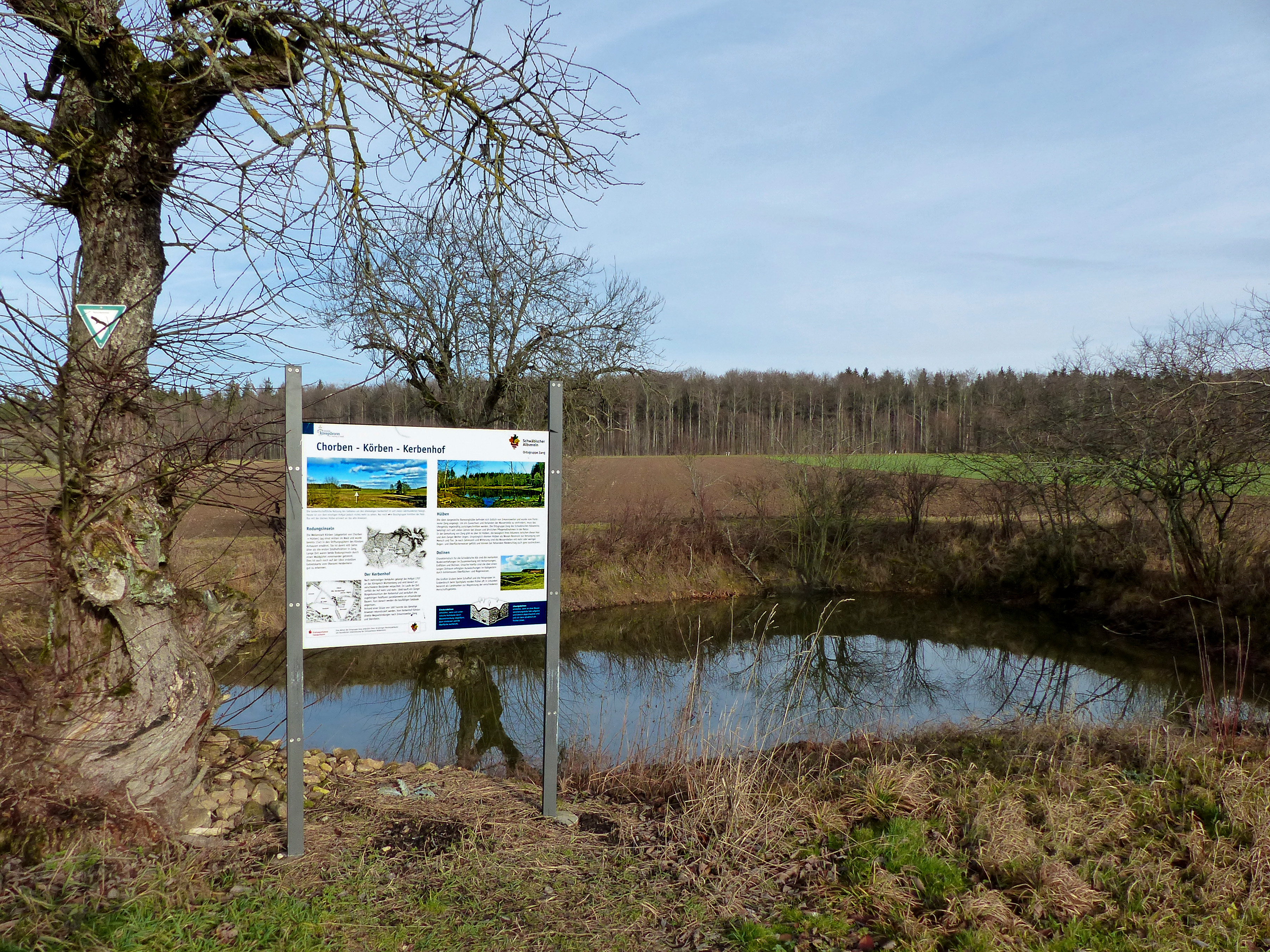 Pond in the Clearing of Zang (2015)